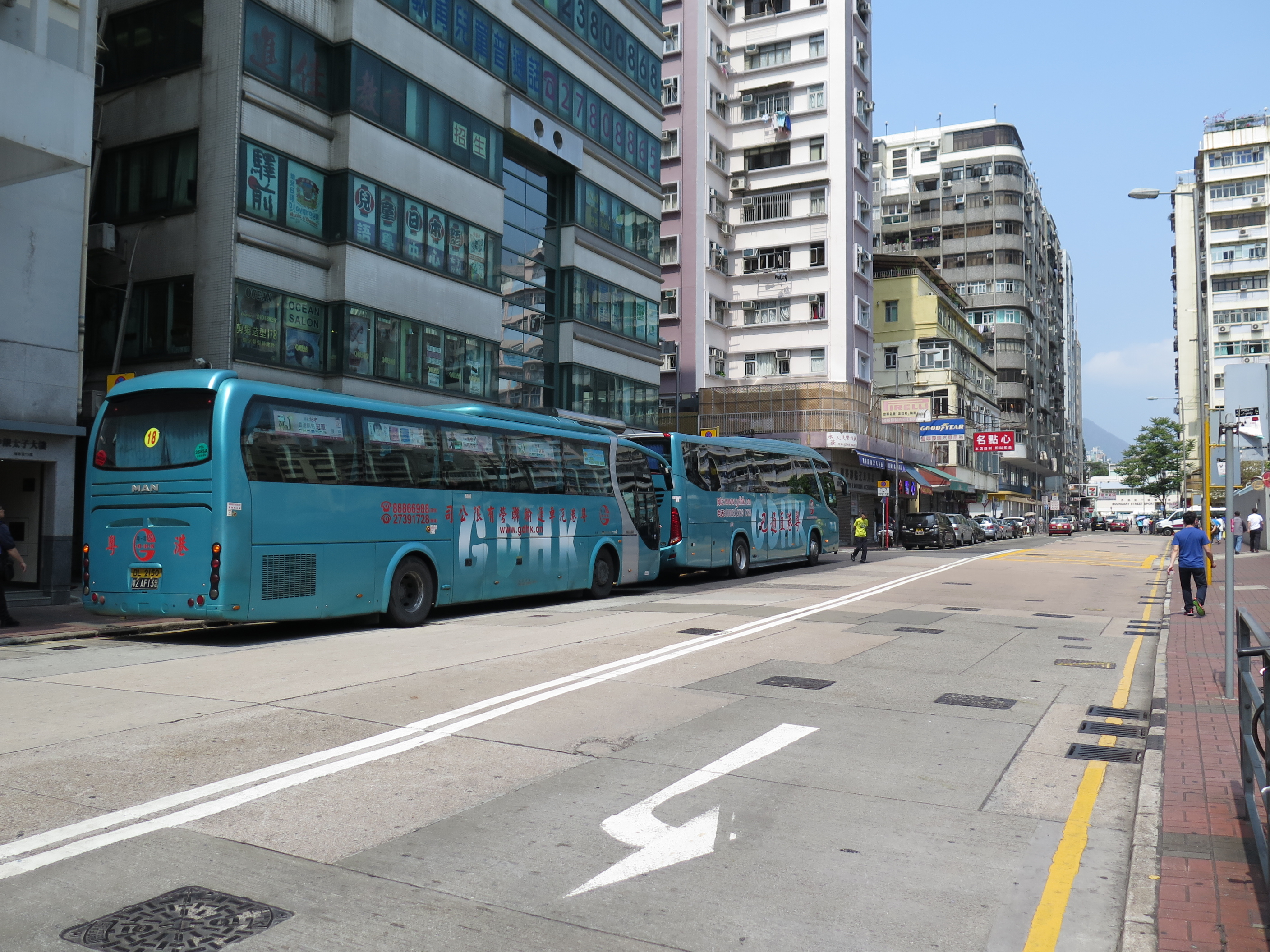 Playing Field Road